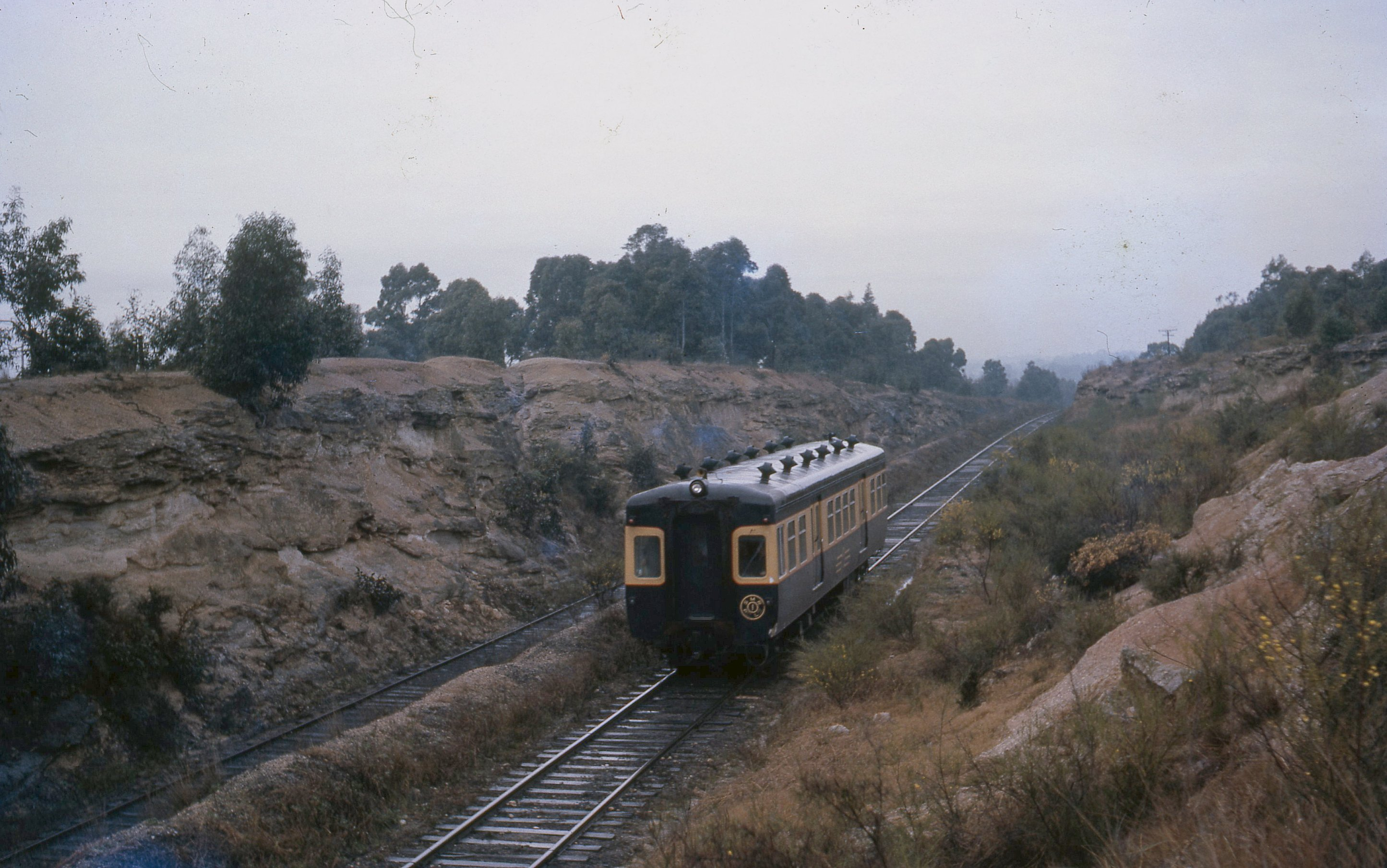 SMR No.1 Railcar